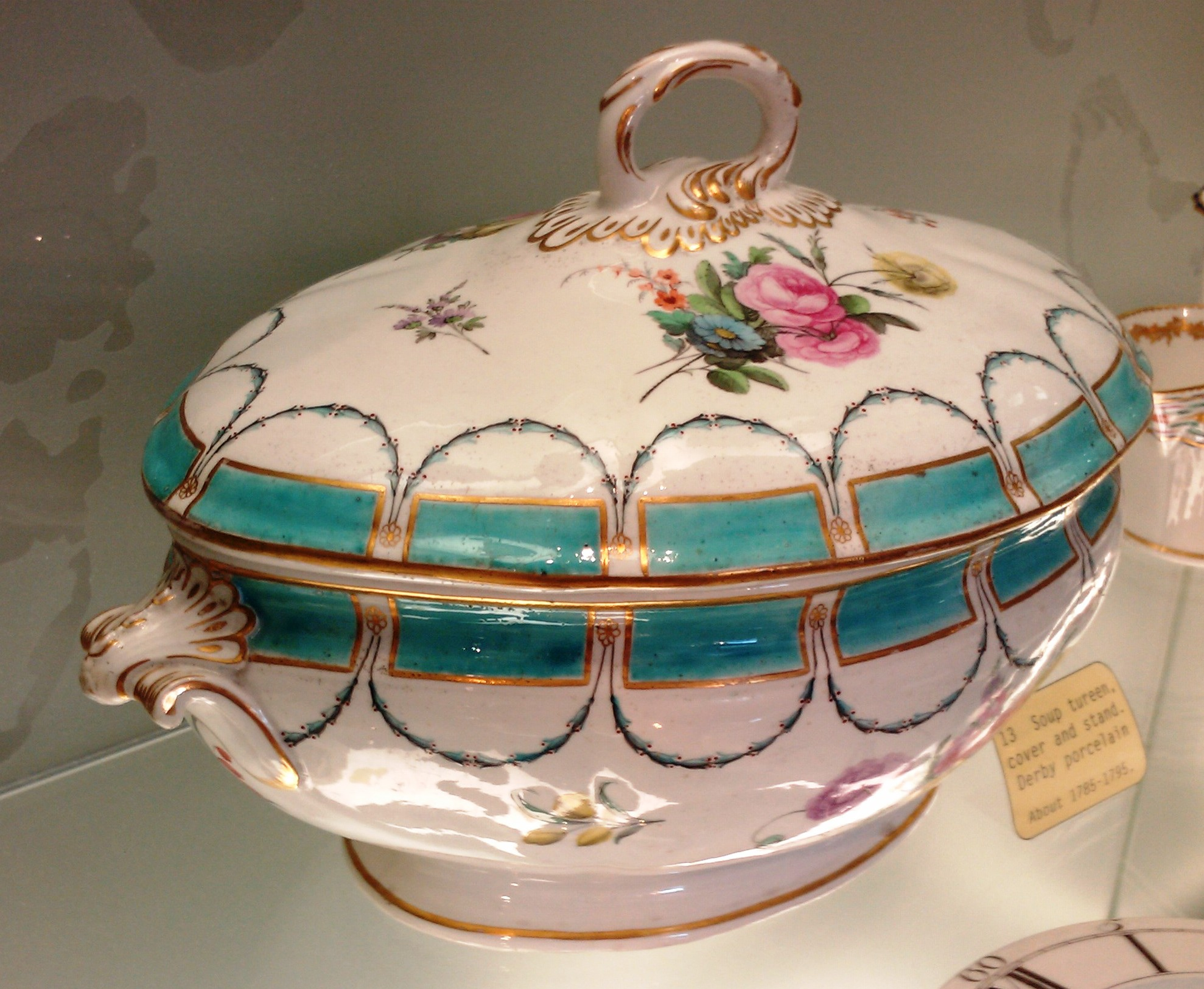 Decorated Porcelain Now in Derby Museum